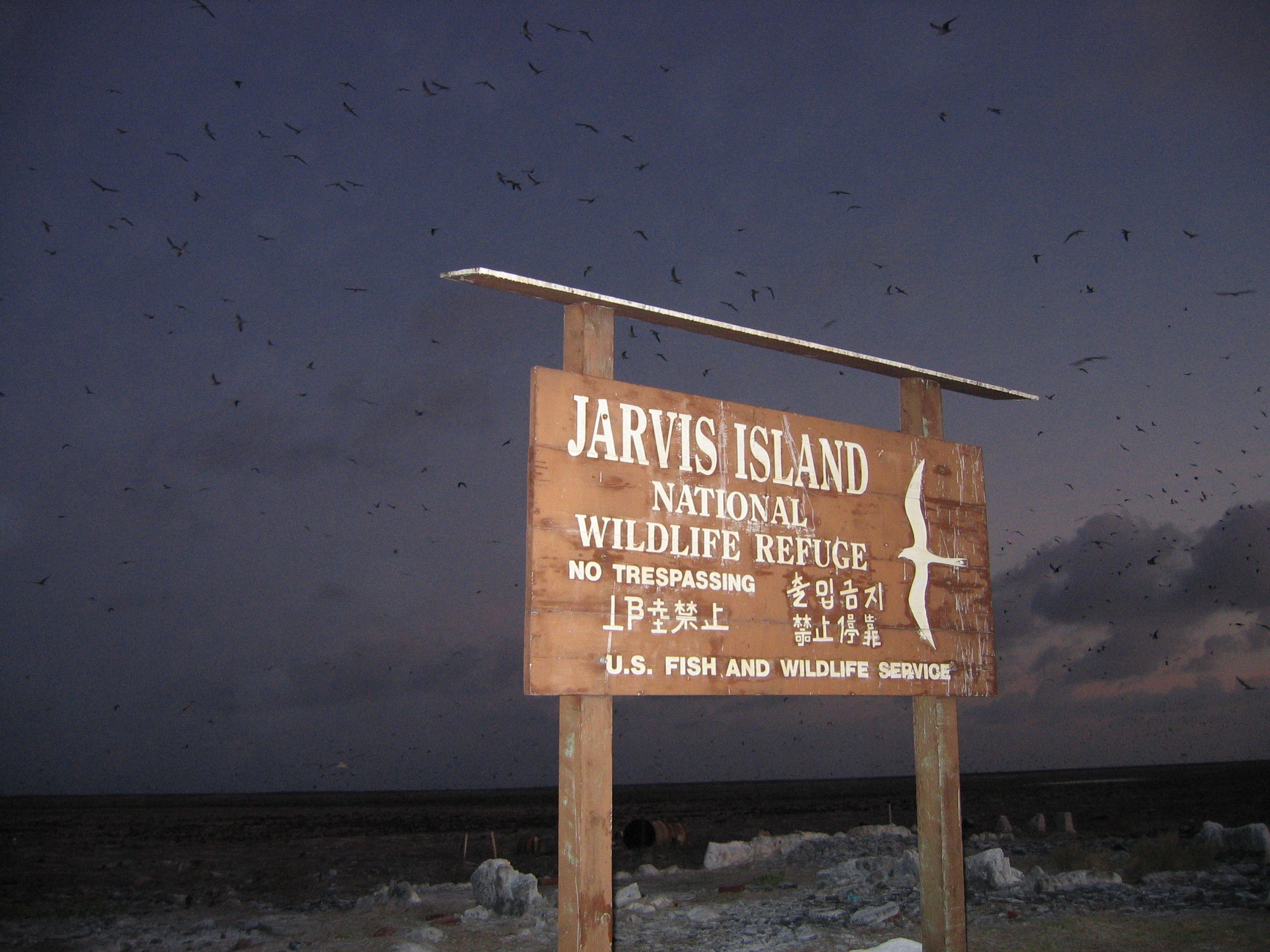 "No Trespassing" sign of USFWS on Jarvis Island in the Pacific Ocean